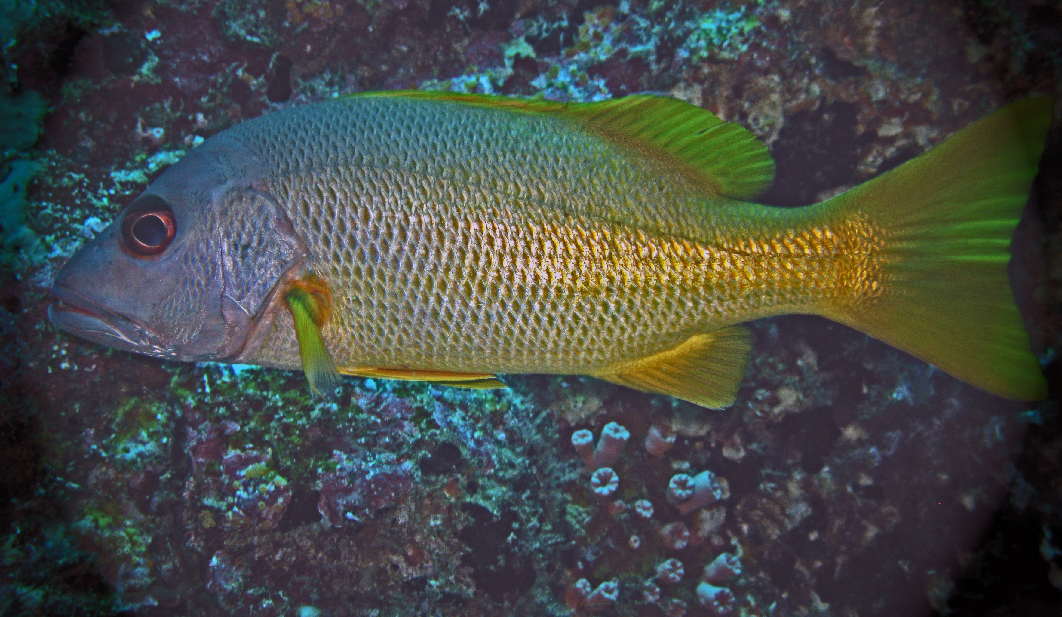 Mangrove Snapper - Lutjanus argentimaculatus; Thailand - Surin Islands - Ko Torinla